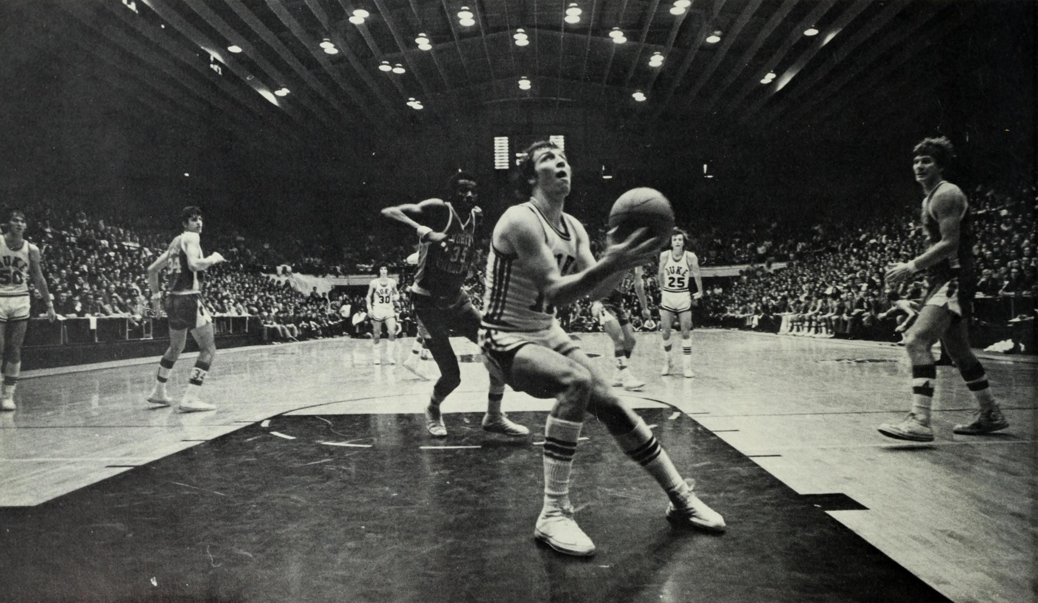 A photo from a North Carolina Tar Heels at Duke Blue Devils men's basketball game which took place at Duke Indoor Stadium on January 22, 1972. Scanned from the 1972 edition of the Chanticleer, the yearbook of Duke University